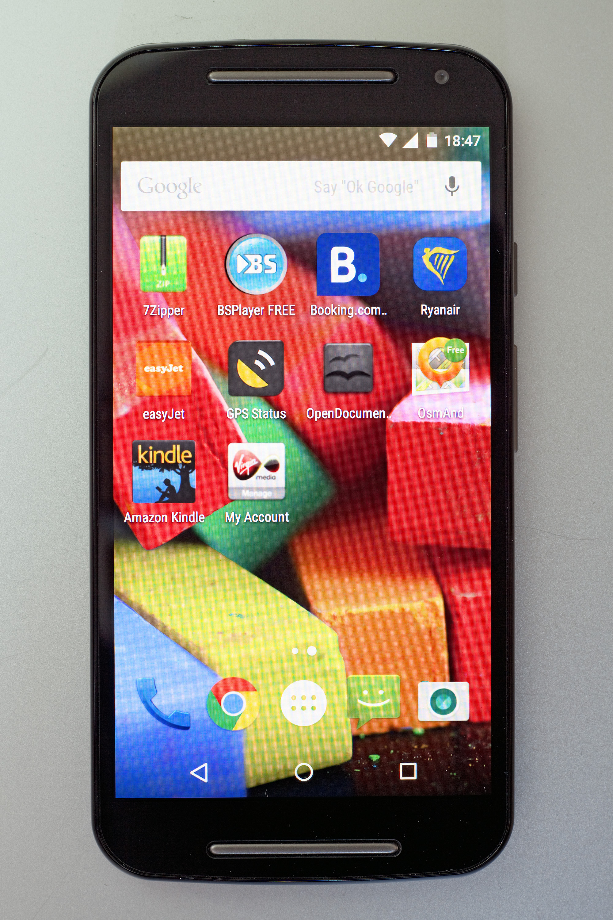 A second-generation Motorola Moto G Android smartphone, running Android 5.0.2 Lollipop.